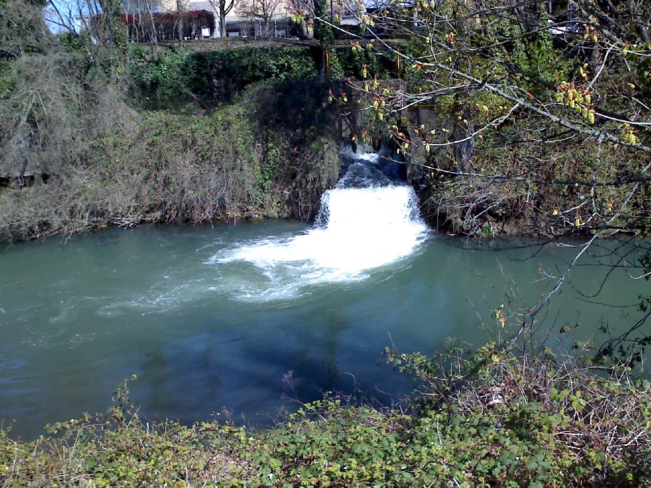 Pringle Creek in Salem, Oregon, USA, where a small canal empties into it